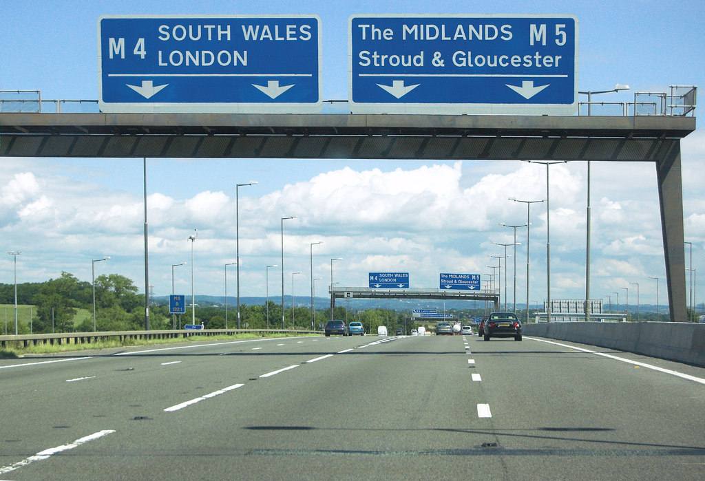 M5 northbound near Junction 16